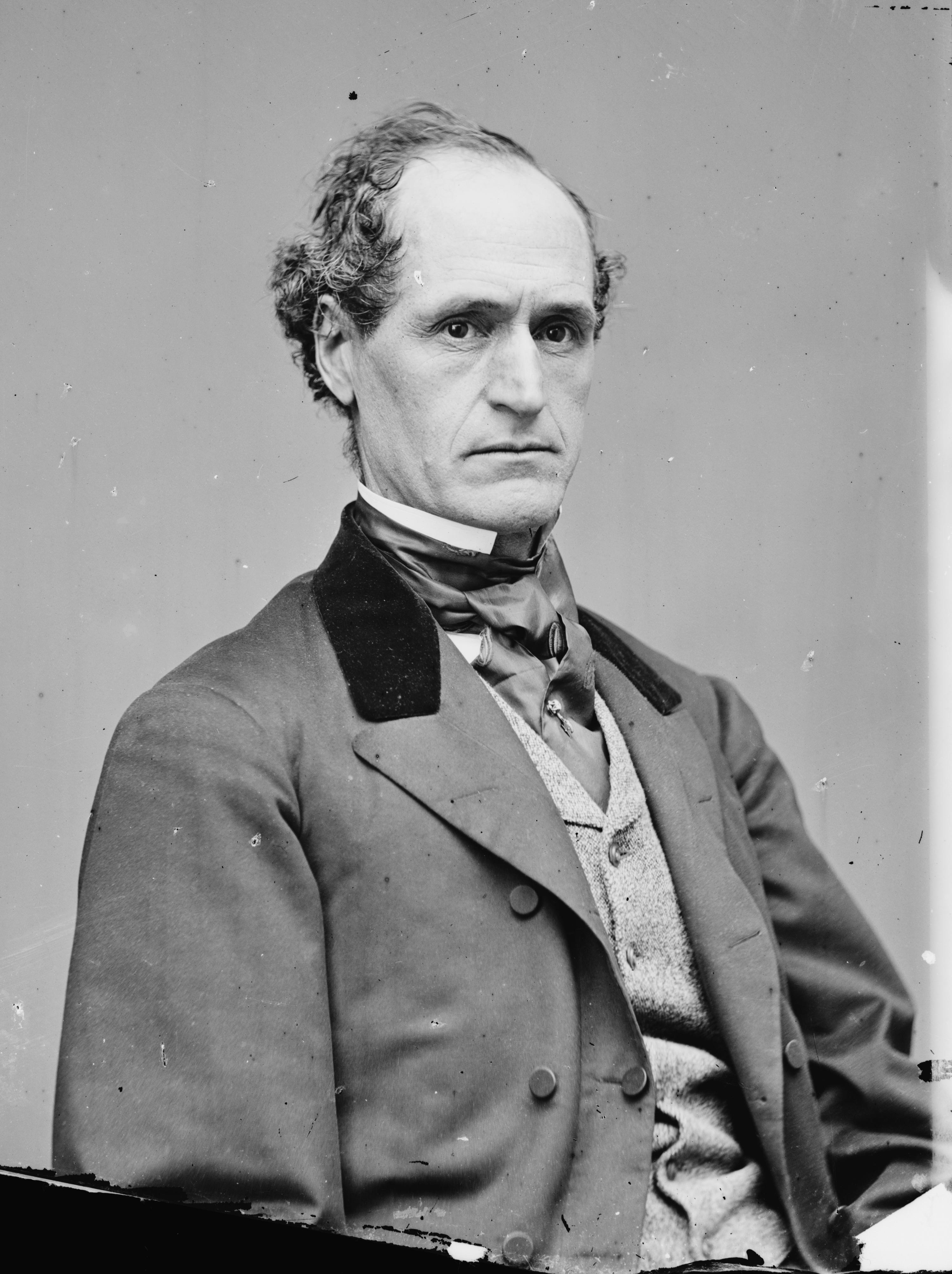 Morton S. Wilkinson. Library of Congress description: "Hon. Morton Smith Wilkinson of Minnesota"